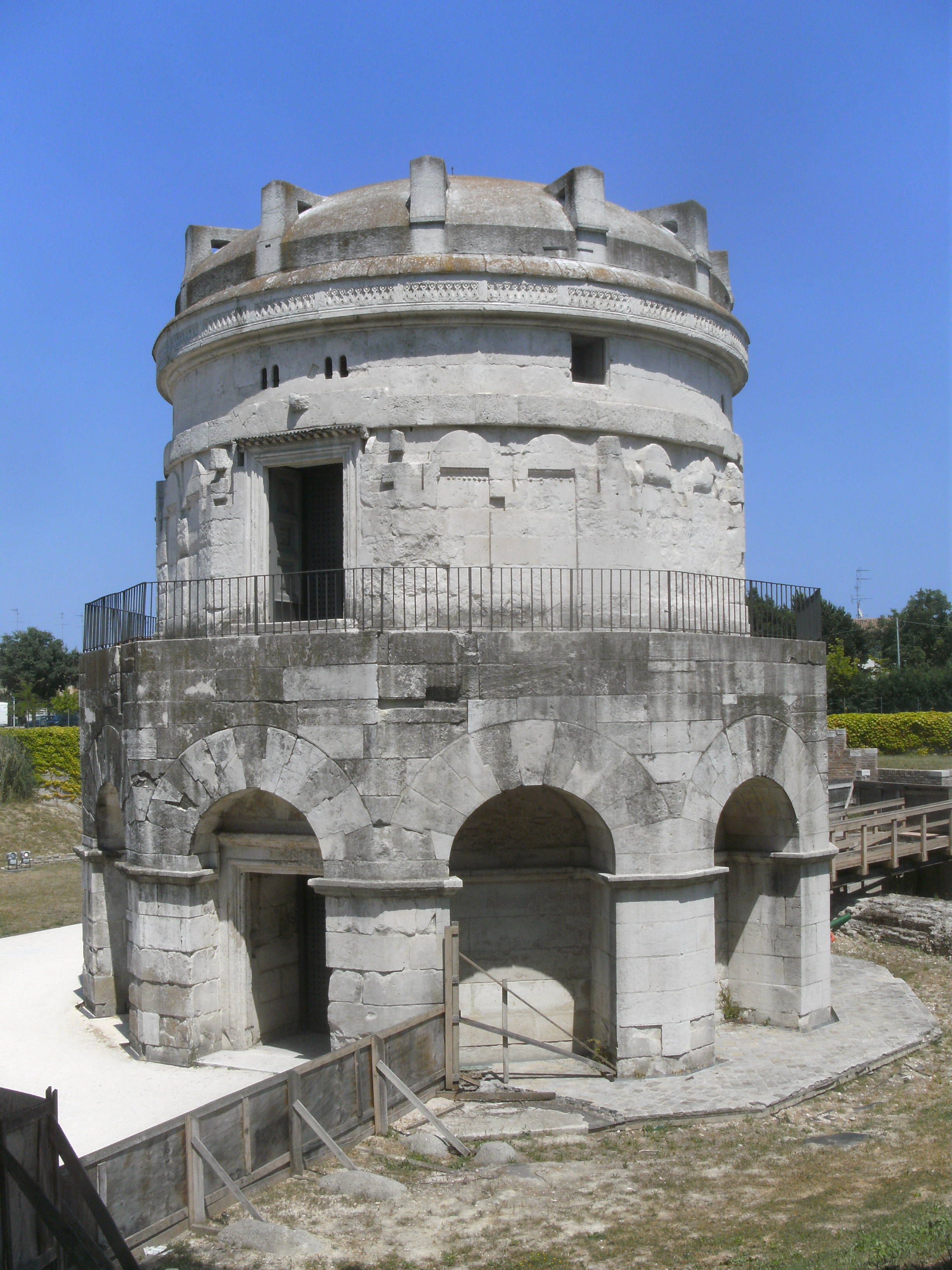 Theoderic's mausoleum seen from southwesterly direction.